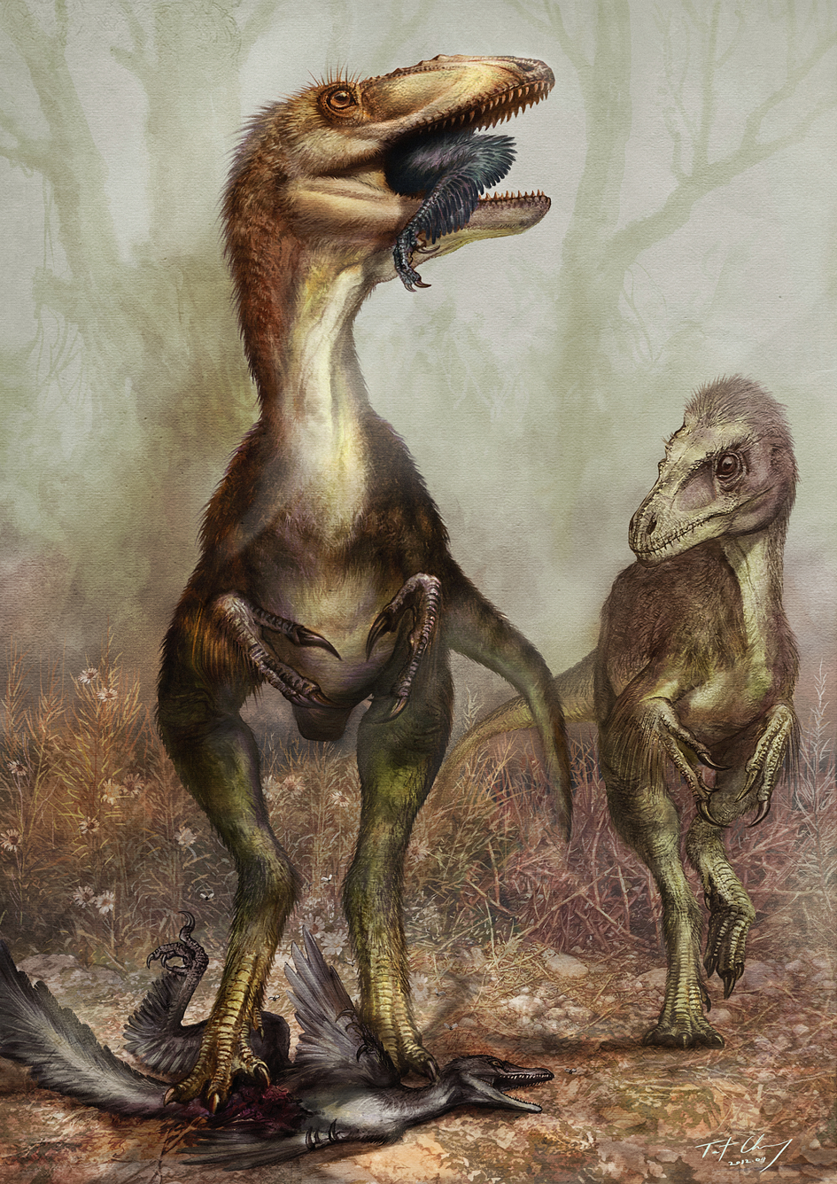 Sinocalliopteryx gigas as a stealth hunter feeding on the dromaeosaur Sinornithosaurus. Illustration by Cheung Chungtat.